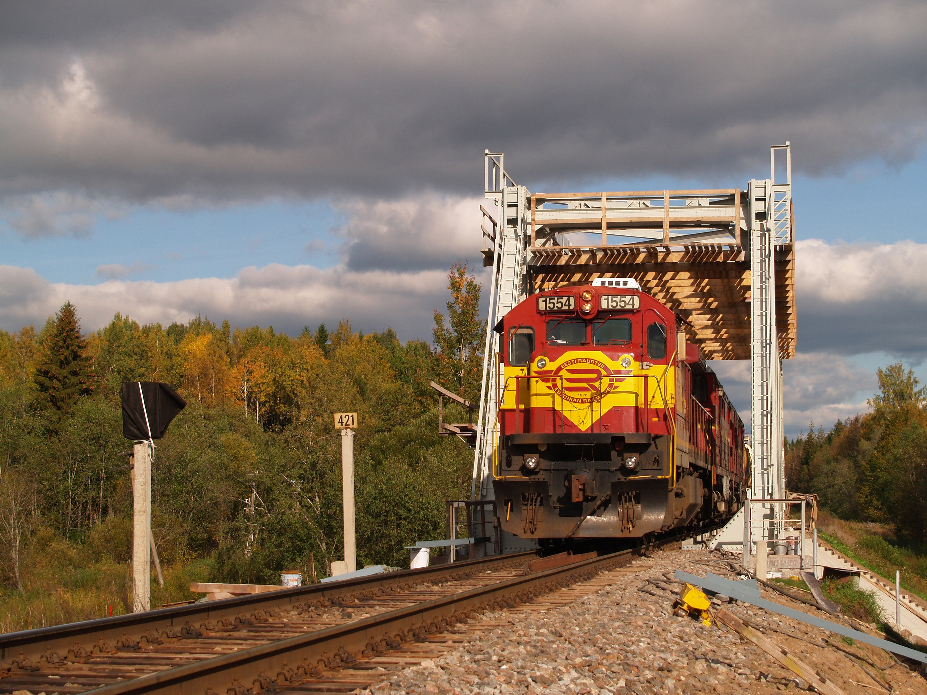 Diesel-electric locomotive GE C36-7 crossing the Jänese railway bridge over the Emajõgi river, Estonia